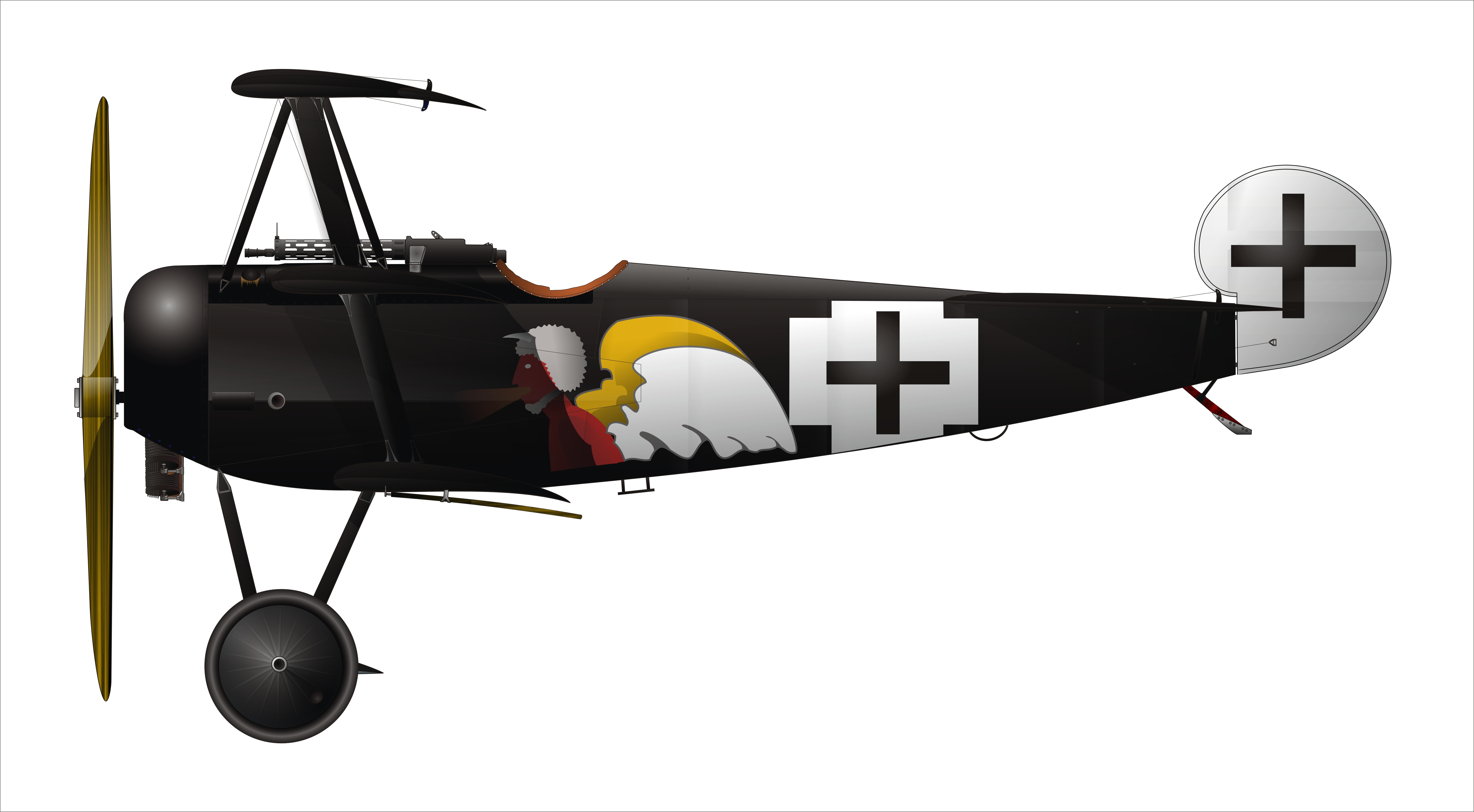 Fokker Dr.I, Leutnant Joseph Jacobs (48 aerial victories)